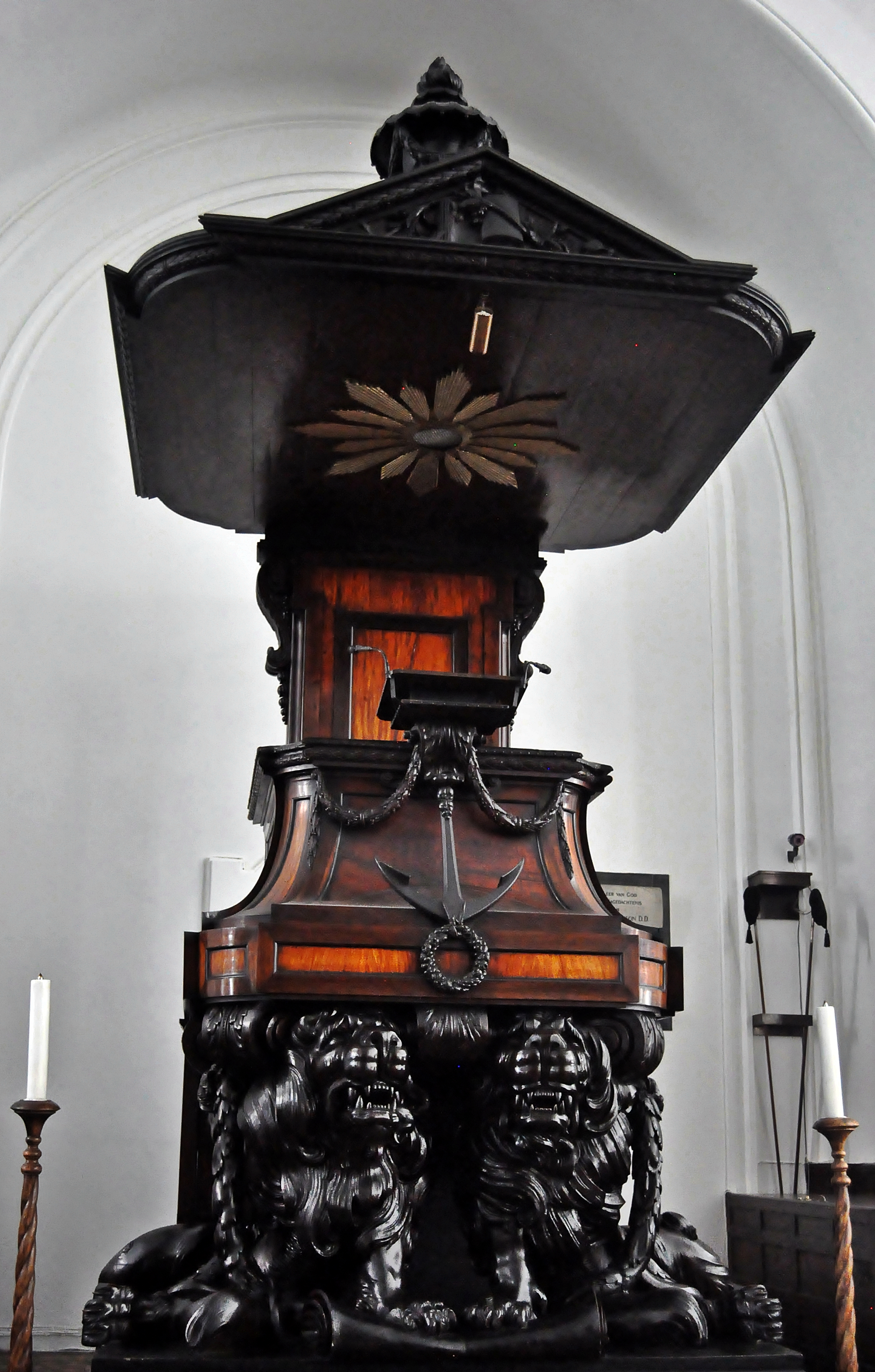 This media shows a South African Protected Site with SAHRA file reference 9-2-018-0106.